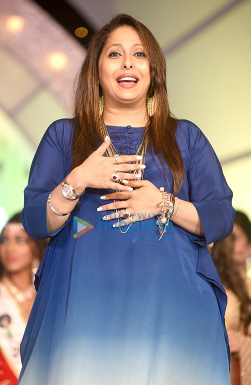 Geeta Kapoor at 24th Miss India Worldwide 2015 Finale